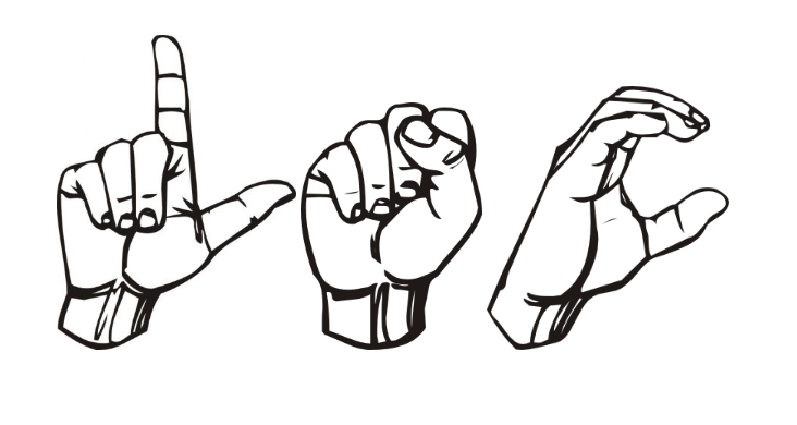 How LSC is fingerspelled using the alphabet of Cuban Sign Language (LSC)